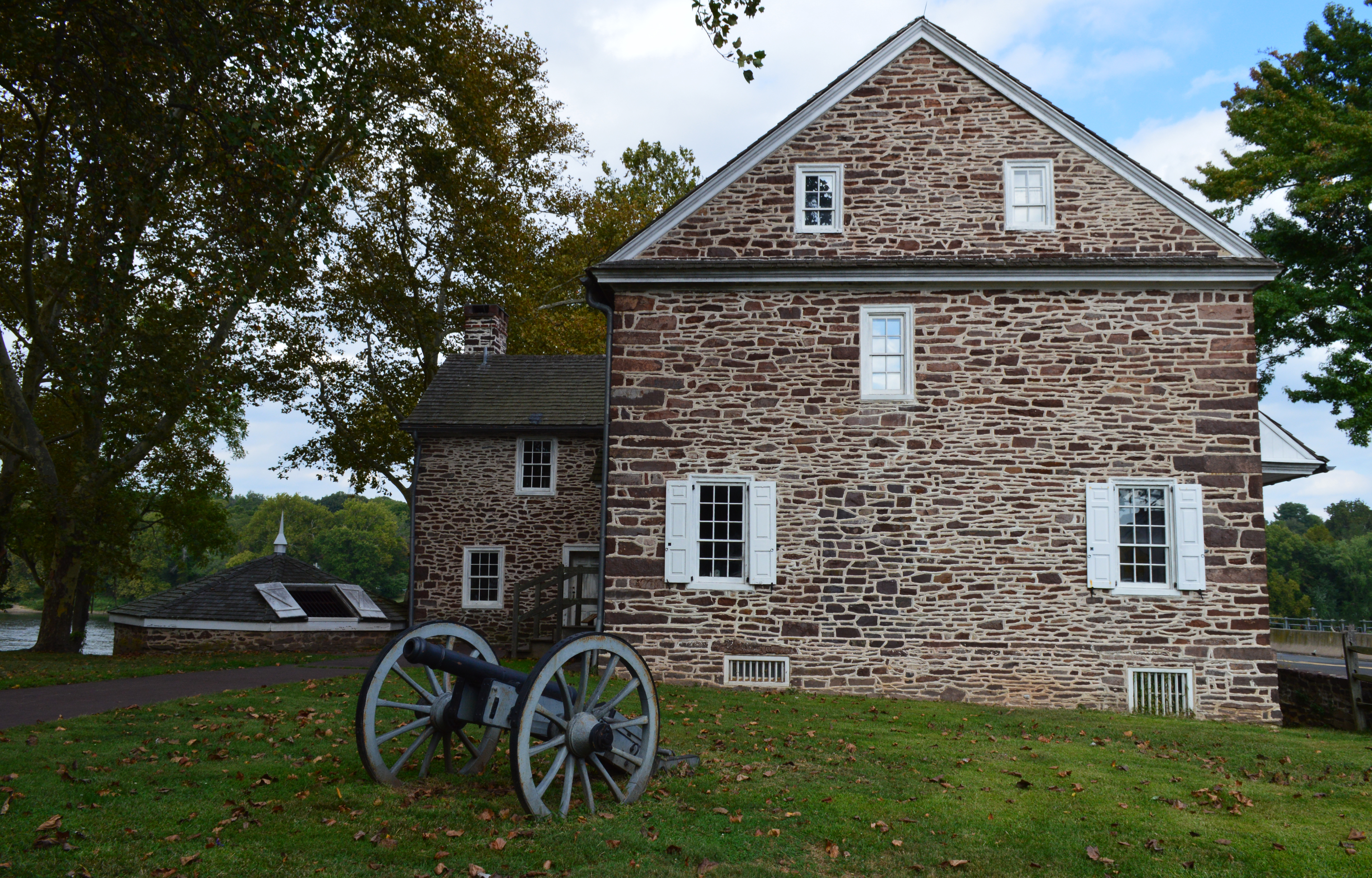 A cannon sits outside of McConkey's Ferry Inn at Washington Crossing Historic Park.